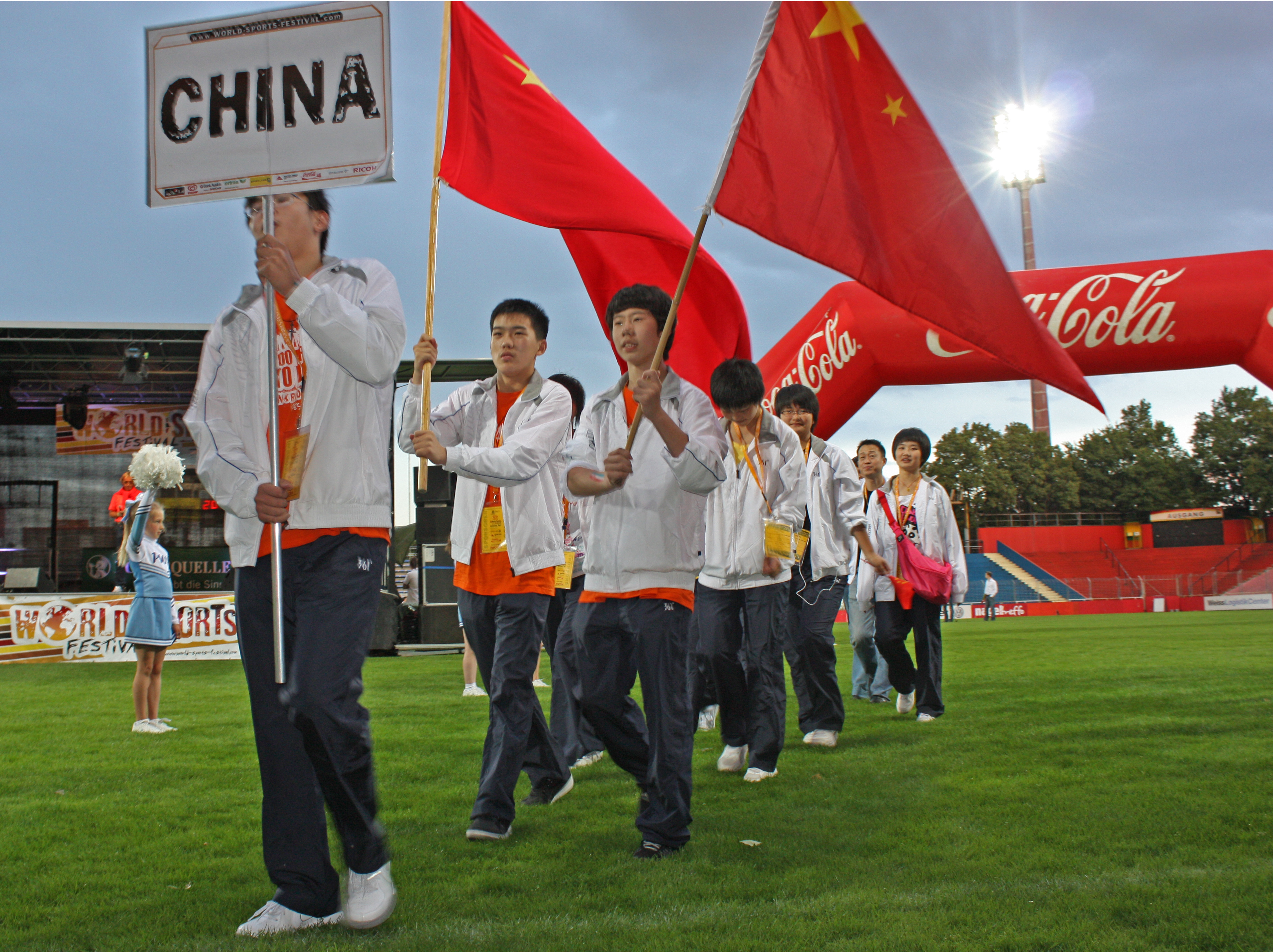 The Chinese delegation marching into the stadium.